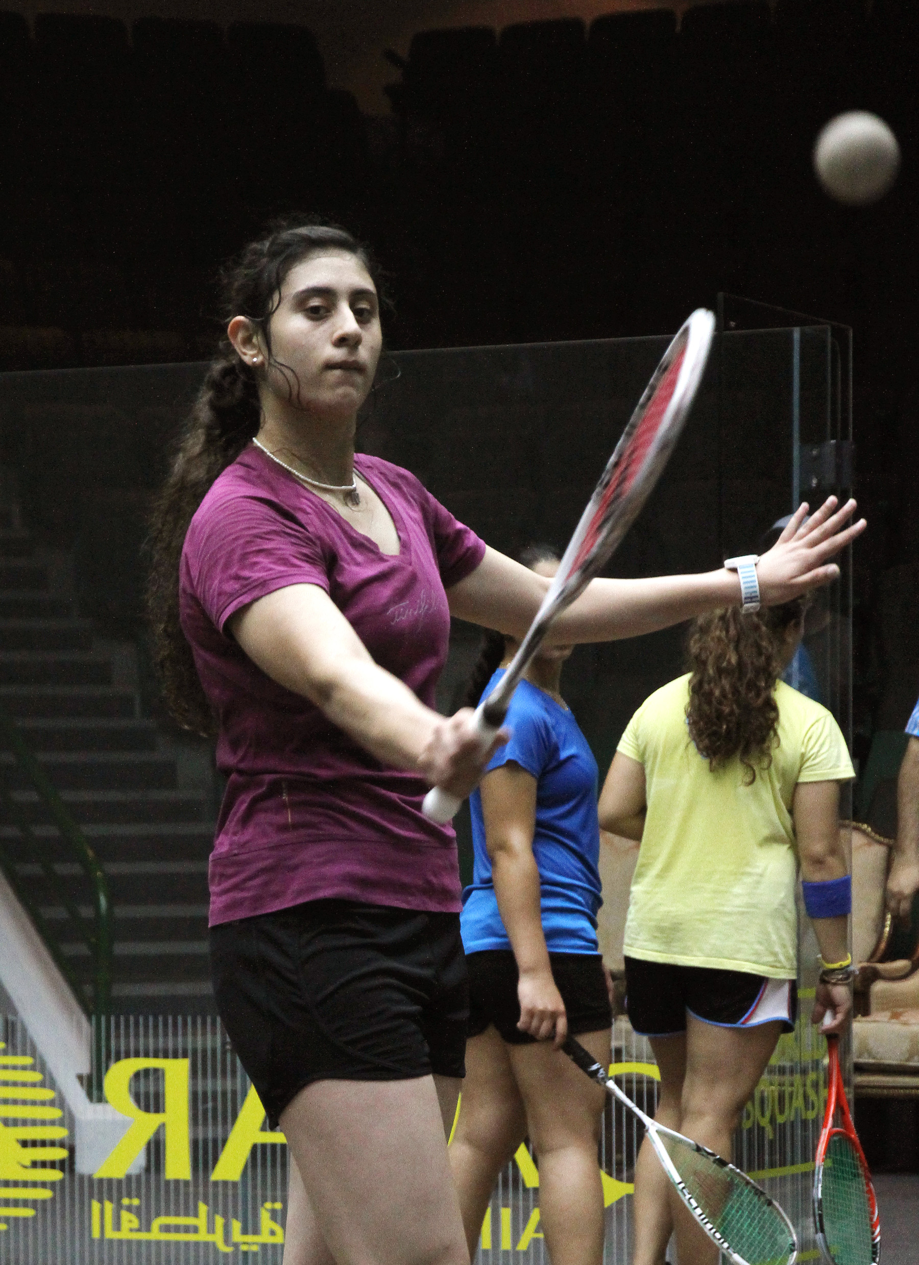 Egyptian teenager Nour El Sherbini in action at the World Junior Squash Championship in Doha. Picture by Vinod Divakaran